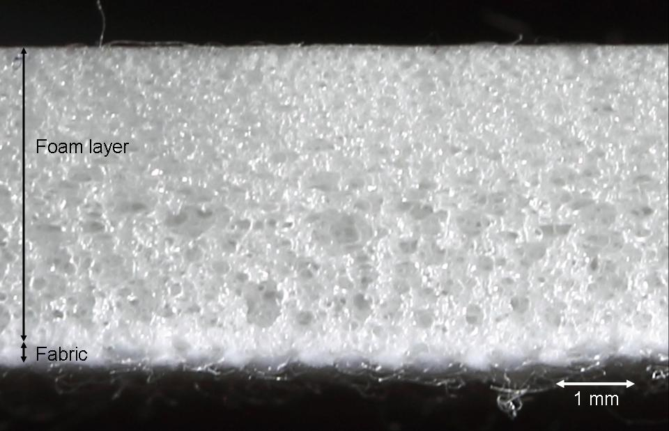 Textile coating: 3.9 mm strong foam layer onto cotton fabric made from 'mechanical' polyurethane dispersion foam (by stirring). Foam density = 0.3 g/l. Add-on weight = 530 g/m2. The foam has an open cell structure with very fine pores towards the open surface. The dispersion used was a 60 % solids PUD, dried at 150 deg C. The coating was made by the technicum plant at Bayer MaterialScience AG, Leverkusen.